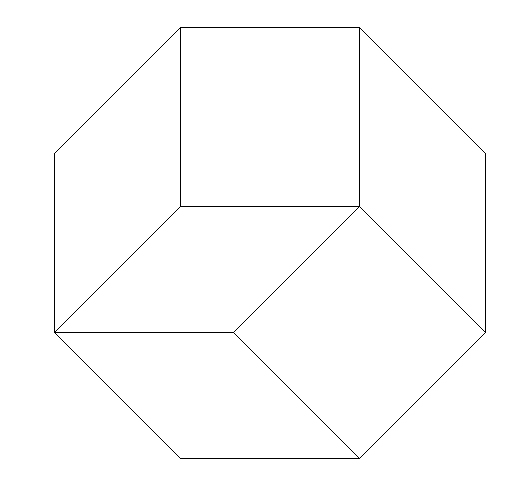 Octagon dissection